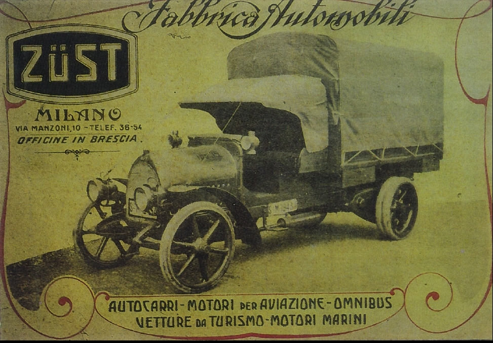 Publicity of Züst